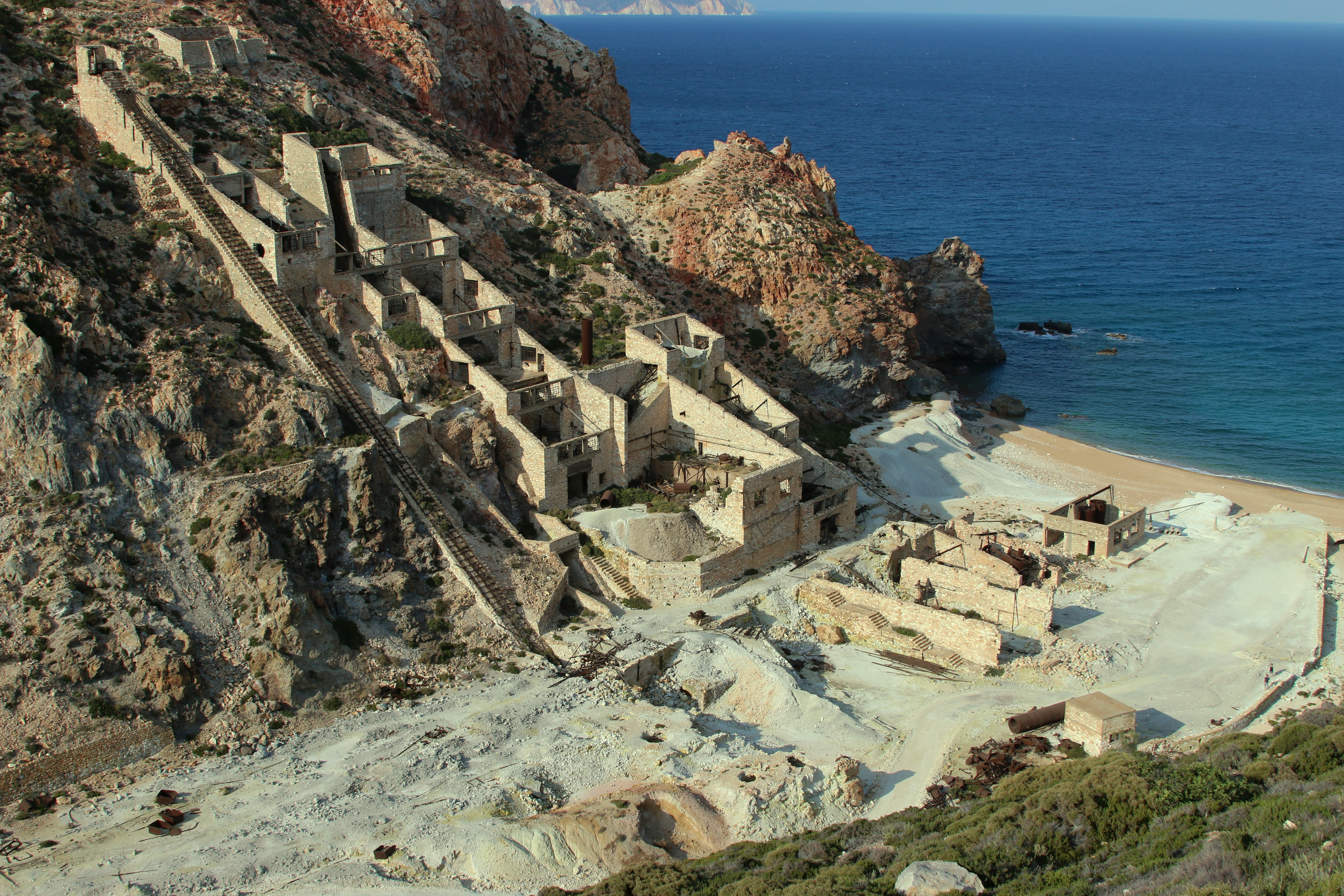 Abandoned sulfur mines. Milos.